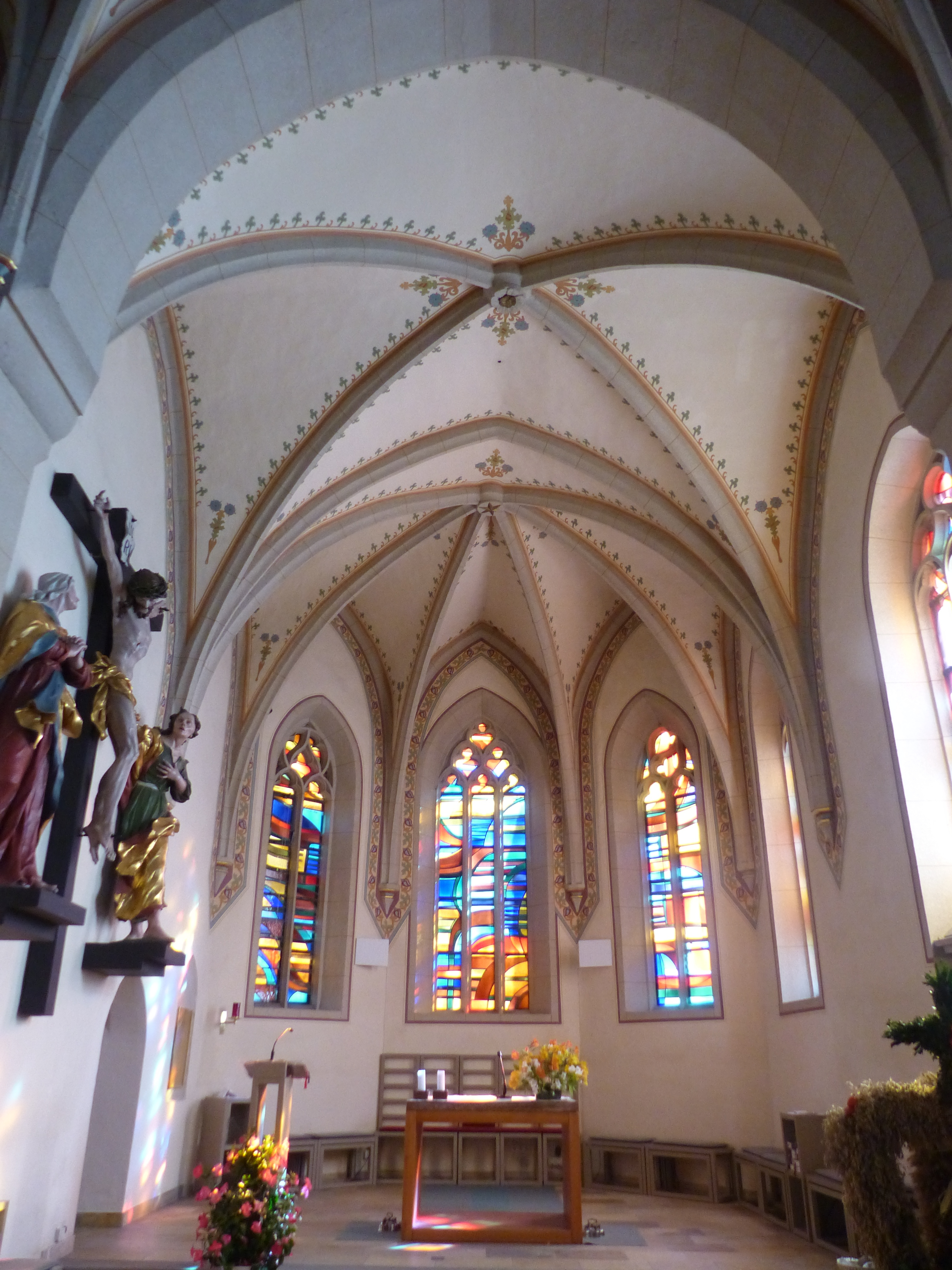 Zwettl an der Rodl ( Upper Austria ). Parish church of the Assumption of Mary: Presbytery.